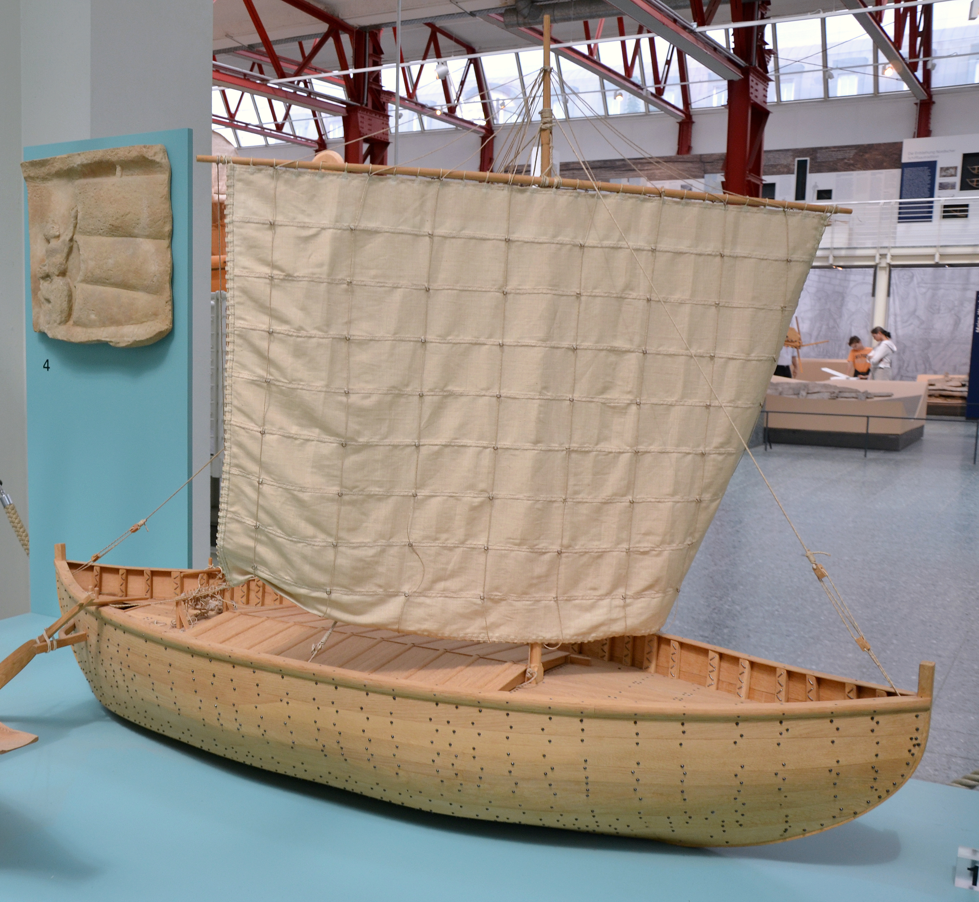 1:10 models Roman ships, 1: cargo ship based on the London-Blackfriars wreck dated to about 150 AD, 3: model based on the Oceanus mosaic fom Bad Kreuznach, Museum für Antike Schiffahrt, Mainz